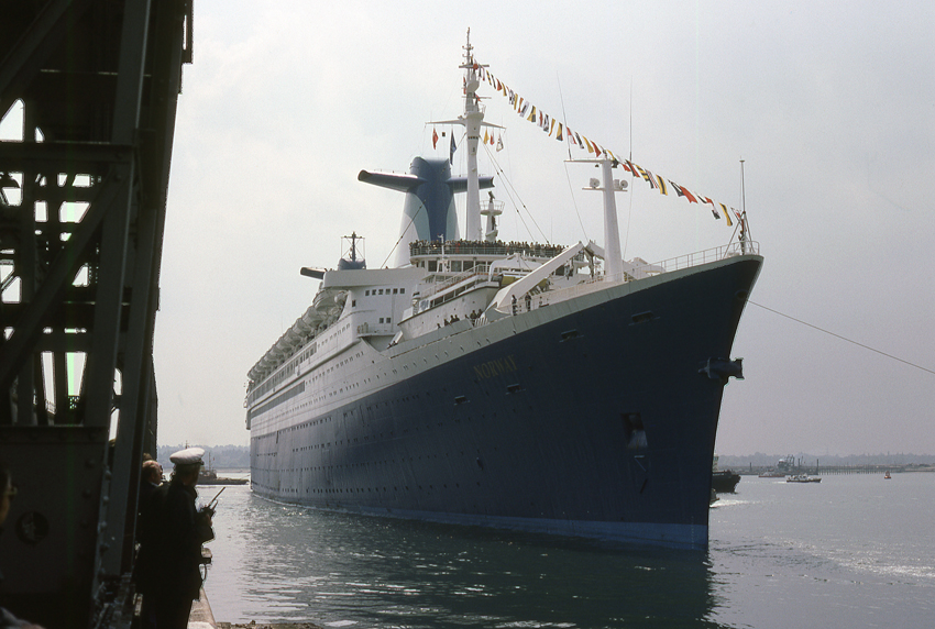 SS Norway arriving at Southampton on her maiden voyage after conversion to a cruise ship. IMO: 5119143 Other names: France, Blue Lady. Information about the vessel may be found at IMO 5119143.A ship can change name and flag state through time, but the IMO number remains the same through the hull's entire lifetime. As a result, it can be useful to identify a ship by using the IMO number. Scanned from a Kodachrome 35mm slide.